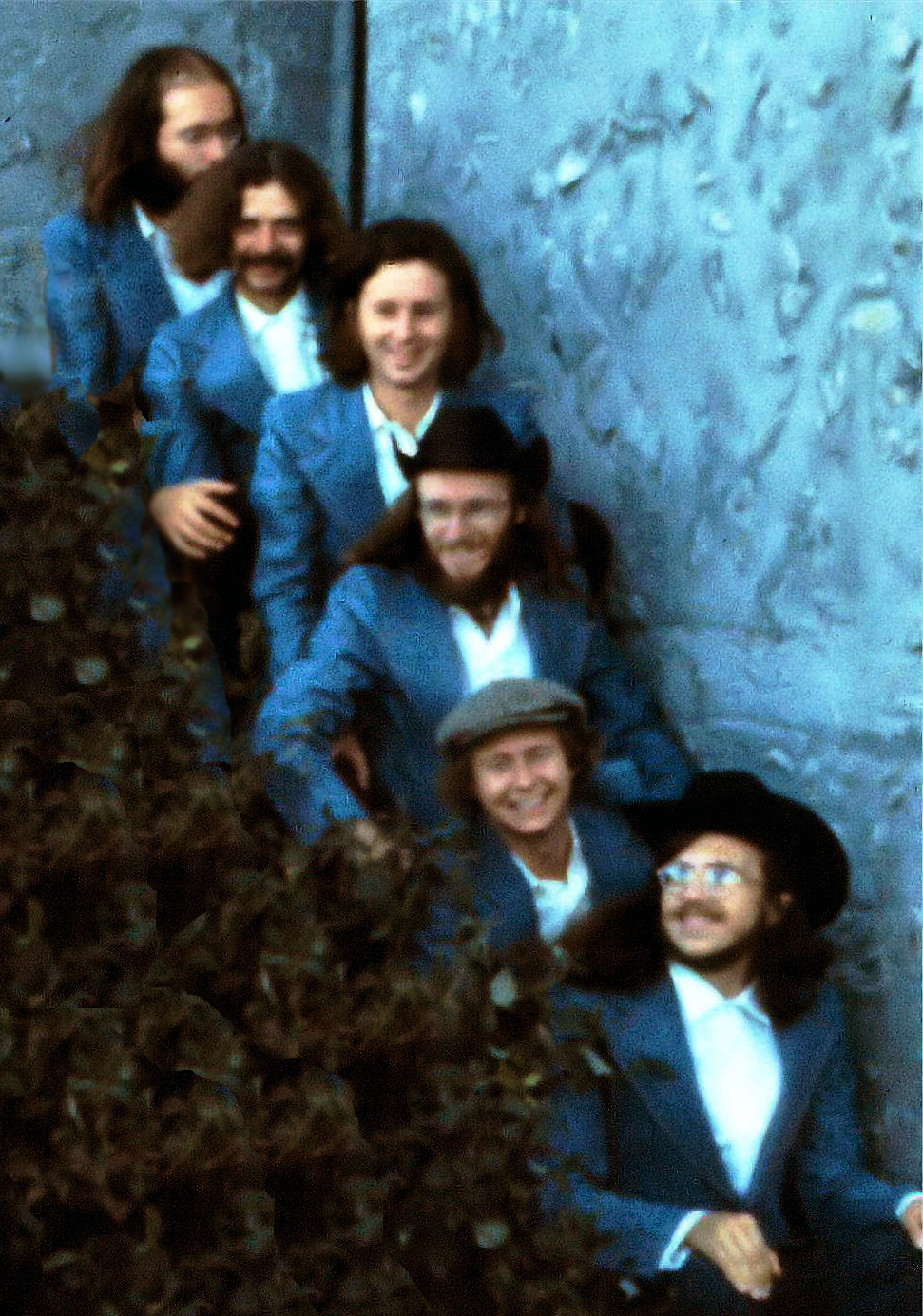 The Peterborough, Ontario band "Bacon Fat", wearing their stage outfits. The photo was taken in 1973 at Trent University.